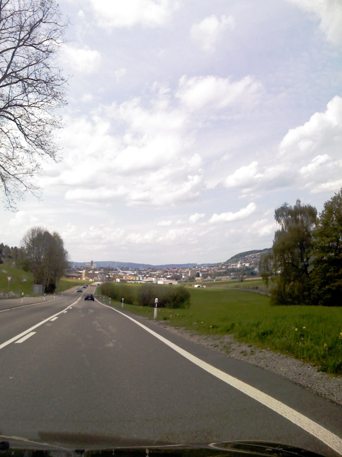 Rickenbach, canton Thurgau, Switzerland